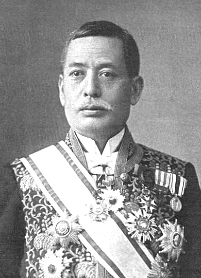 from [1]